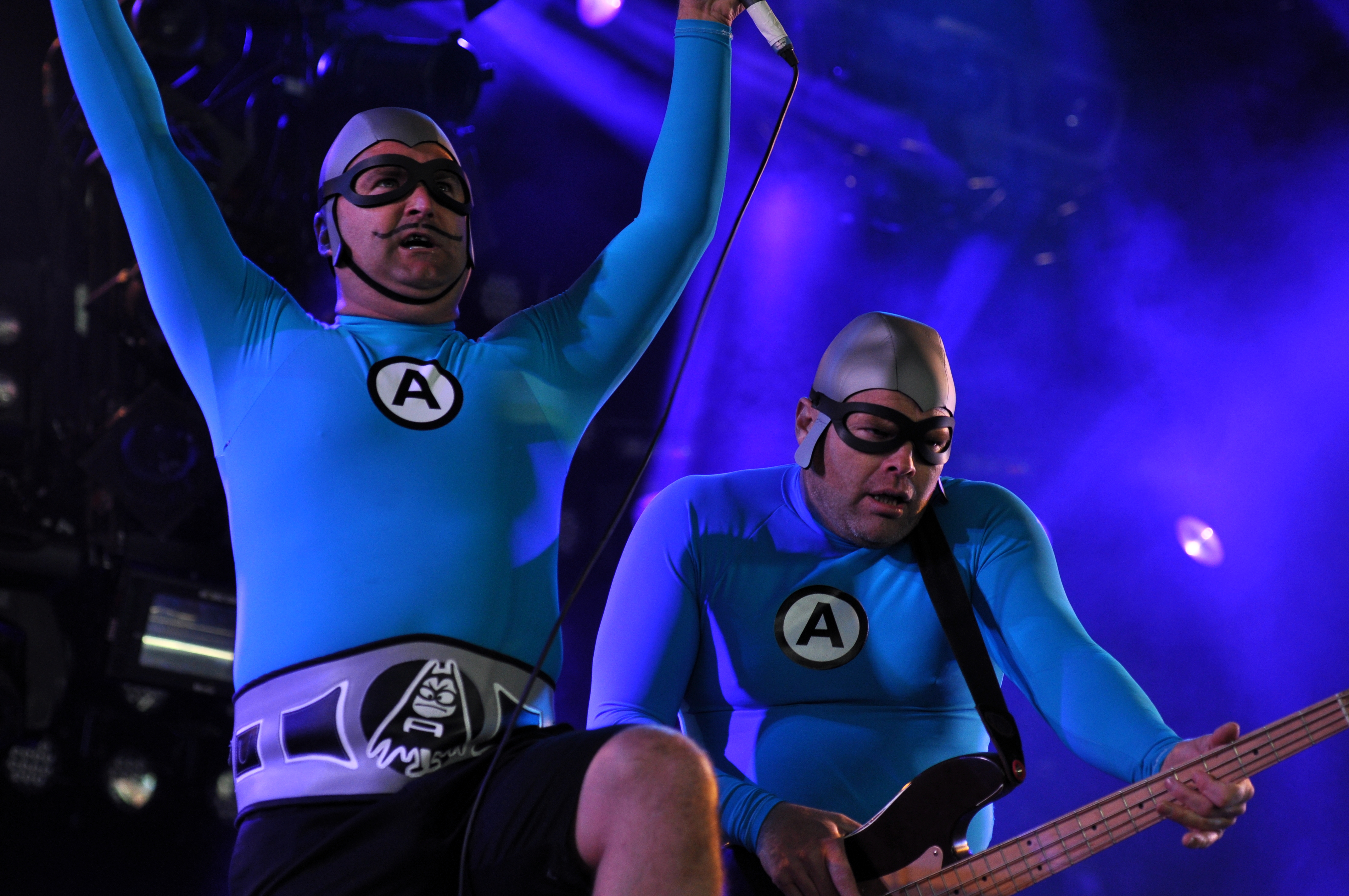 The Aquabats at Groezrock 2013